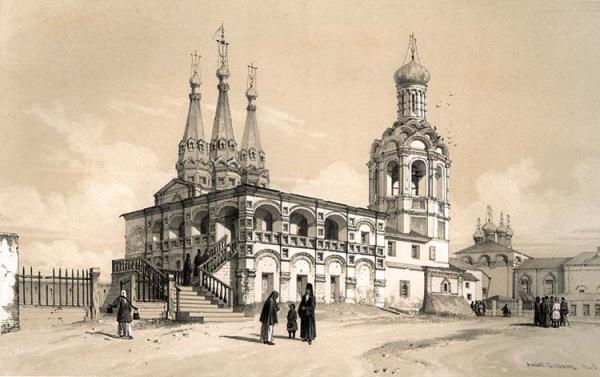 Ivanovsky (John the Precursor) monastery in Kazan in 1839. Drawing by Edward Turnerelli.